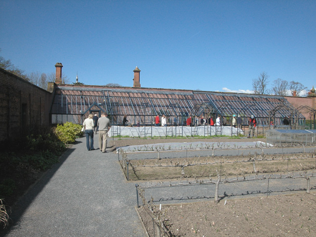 Kitchen garden Walled kitchen garden at Eaton Hall, the Chester home of the Duke of Westminster.